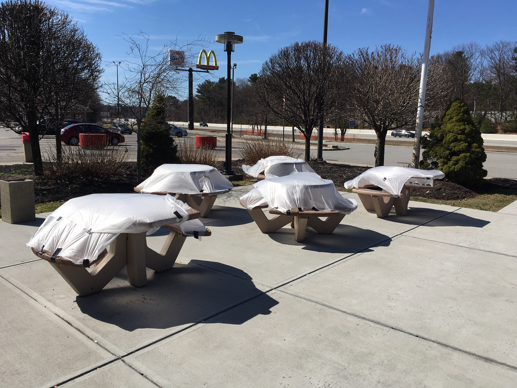 Picnic tables tented in plastic on March 21, 2020 at the Natick, Massachusetts I-90 Turnpike rest area during a closure of restaurants and sitting areas due to the Covid-19 pandemic.